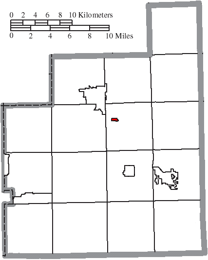 Map of the municipal and township boundaries of Geauga County, Ohio, United States, as of the 2000 census, with the location of the village of Aquilla highlighted. Township borders are shown only in unincorporated areas in order to differentiate incorporated and unincorporated areas more clearly.